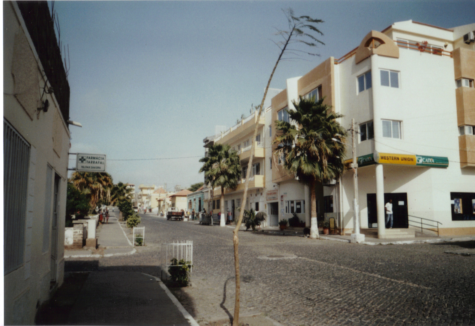 Main Street, Tarafal, Cape Verde.